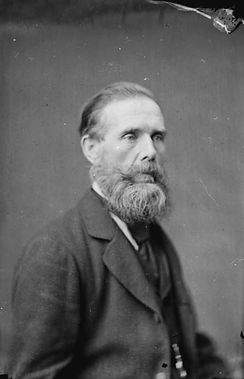 1 negative : glass, wet collodion, b&w ; 11 x 16.5 cm.